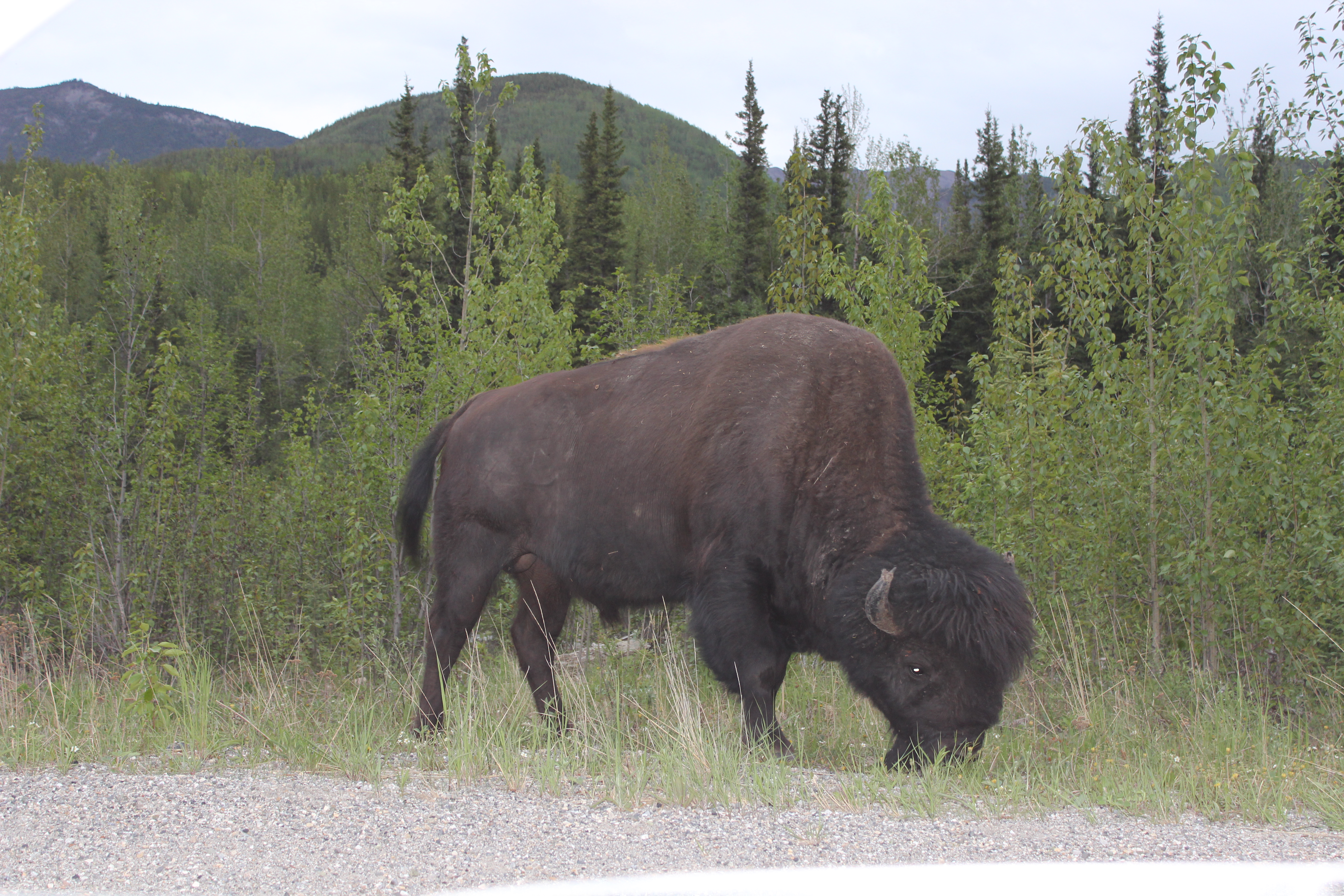 Canadian Bison